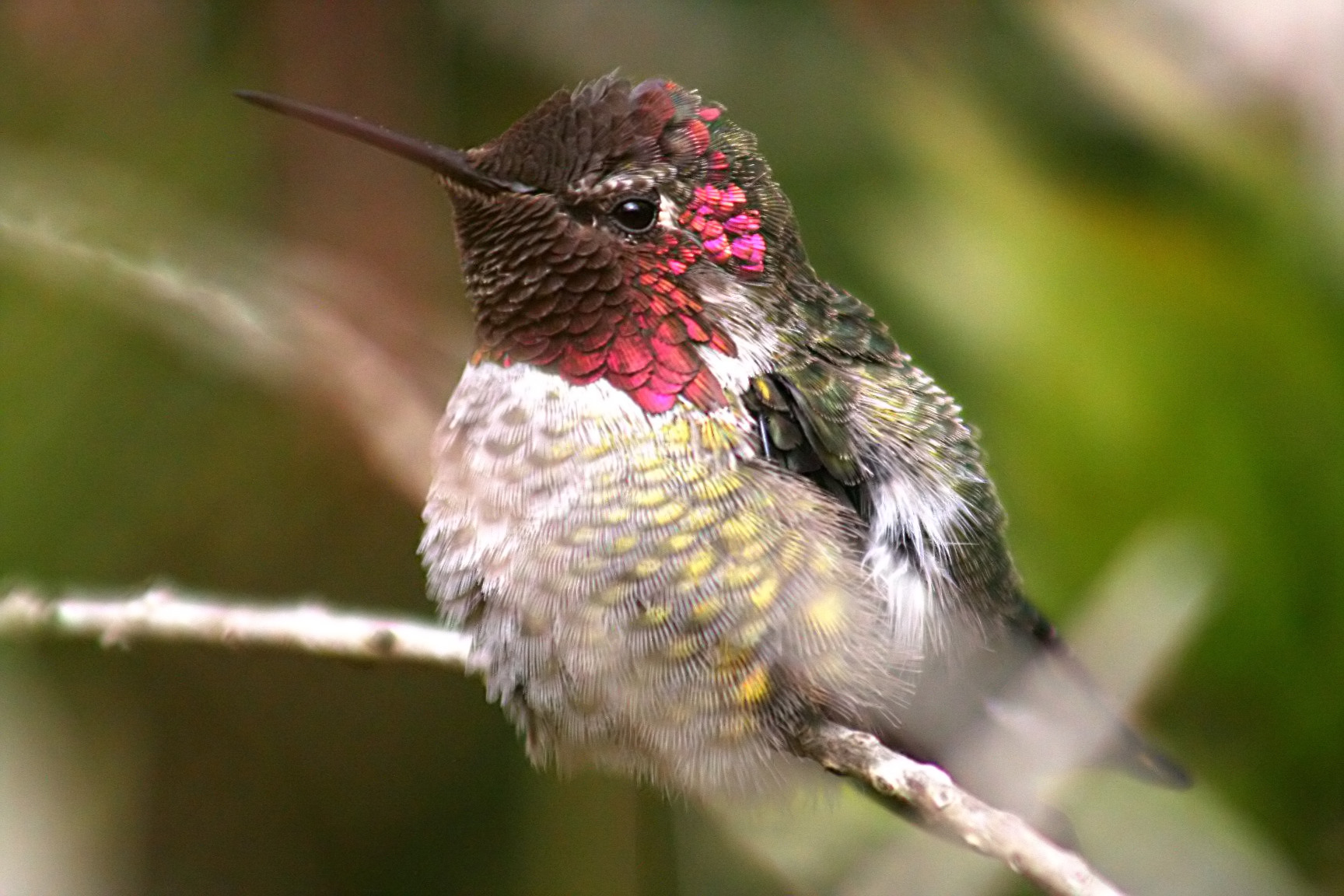 The colors of hummingbird